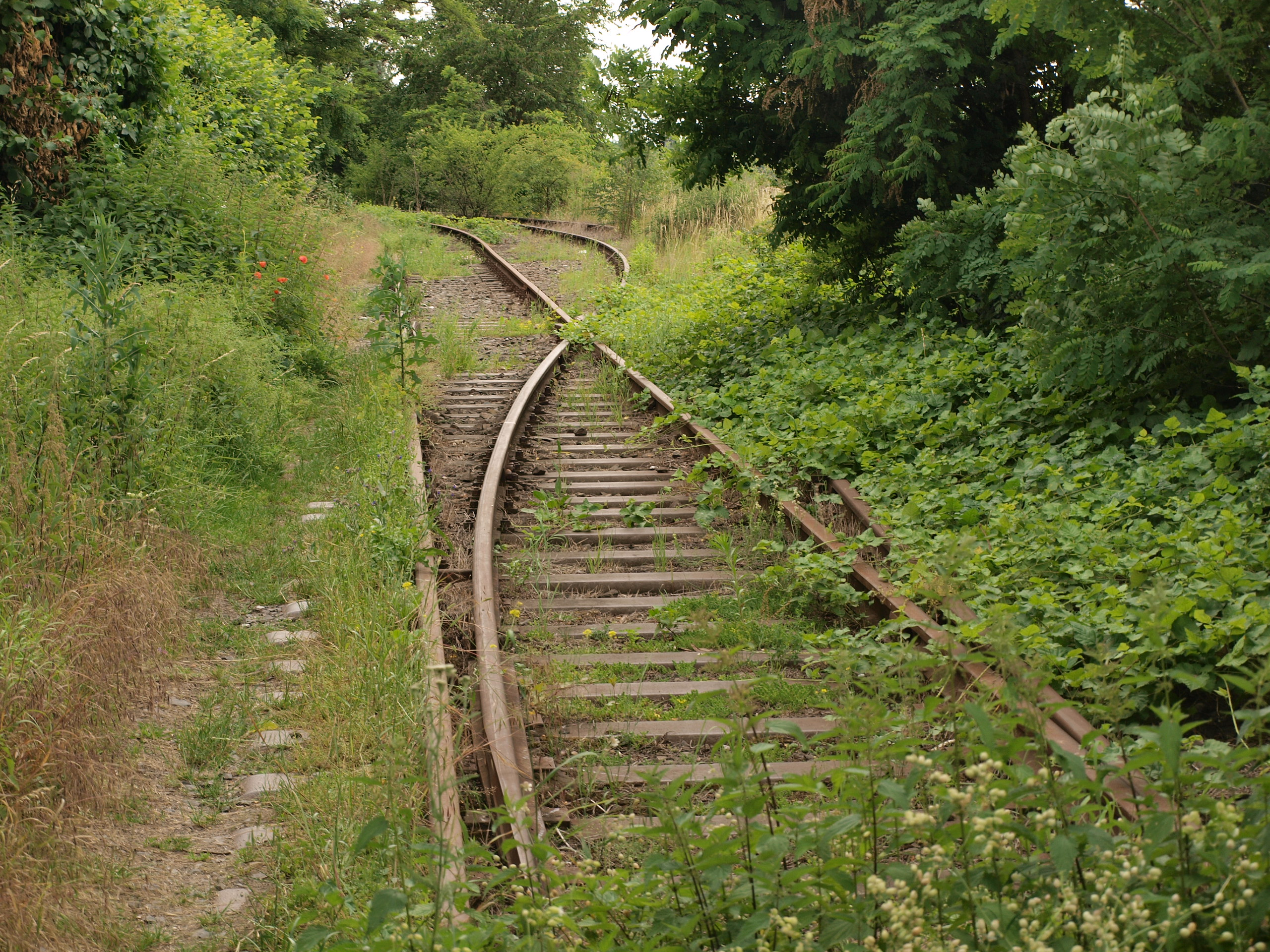 Track to Modřanské strojírny near Praha-Modřany train station